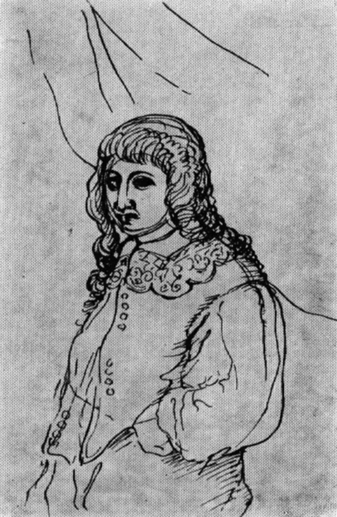 The oldest son of Teimuraz I, Davit batonishvili